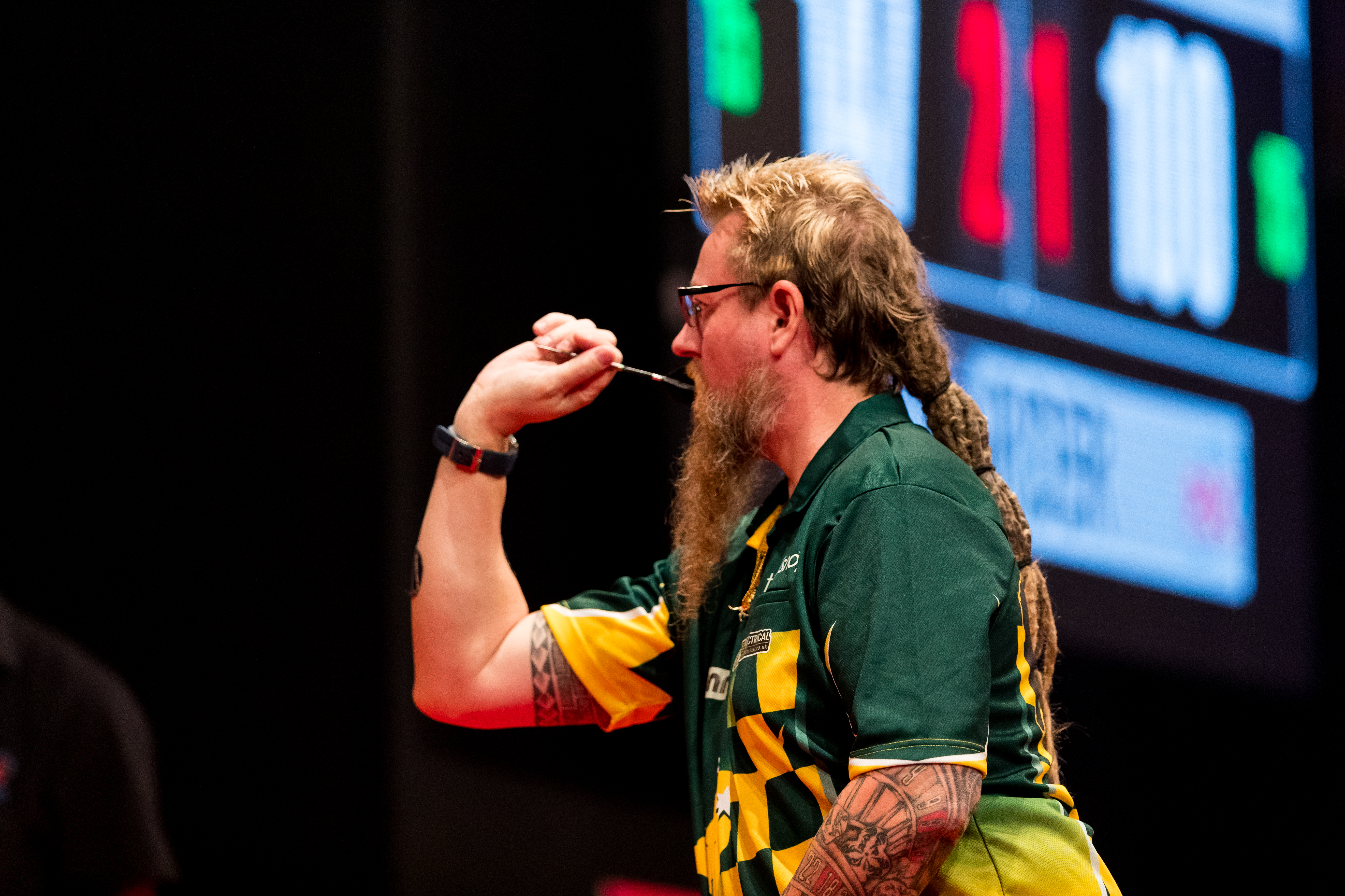 Keegan Brown 6:3 Simon Whitlock during PDC Europe Darts Matchplay at Maimarkthalle, Mannheim, Baden-Württemberg, Germany on 2019-09-06, Photo: Sven Mandel